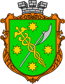 COA Berdychiv Ukraine